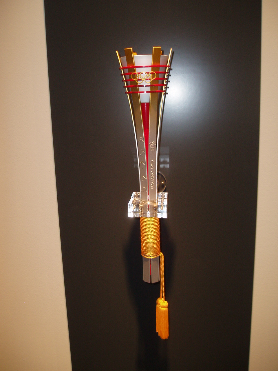 Torch of Nagano 1998 Winter Olympic Games